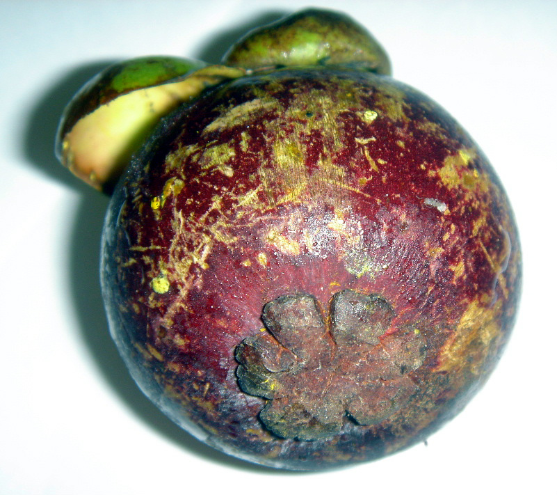 mangosteen